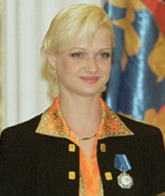 Svetlana Khorkina decorated with the Order of Honor